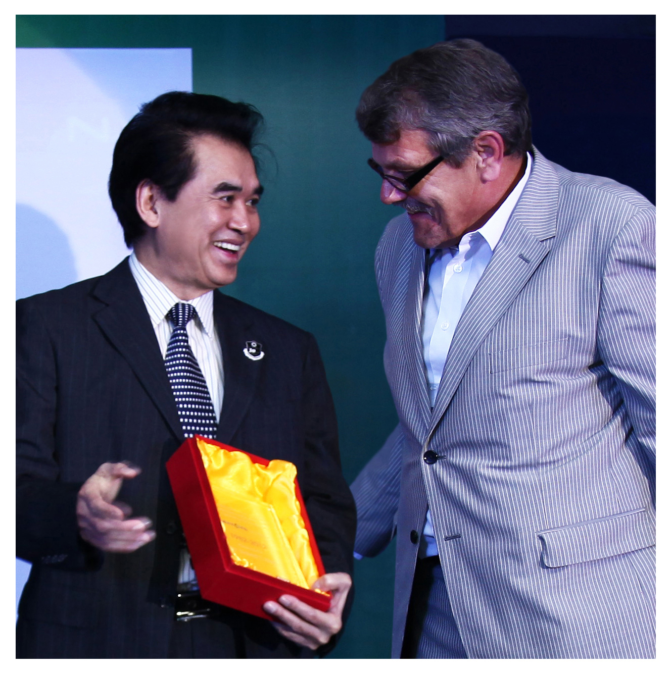 Dr. David T. Hon receives an award from Jack Oortwijn, Editor in Chief of Bike Europe, for contribution to the bicycle industry. Shanghai, China. 2012